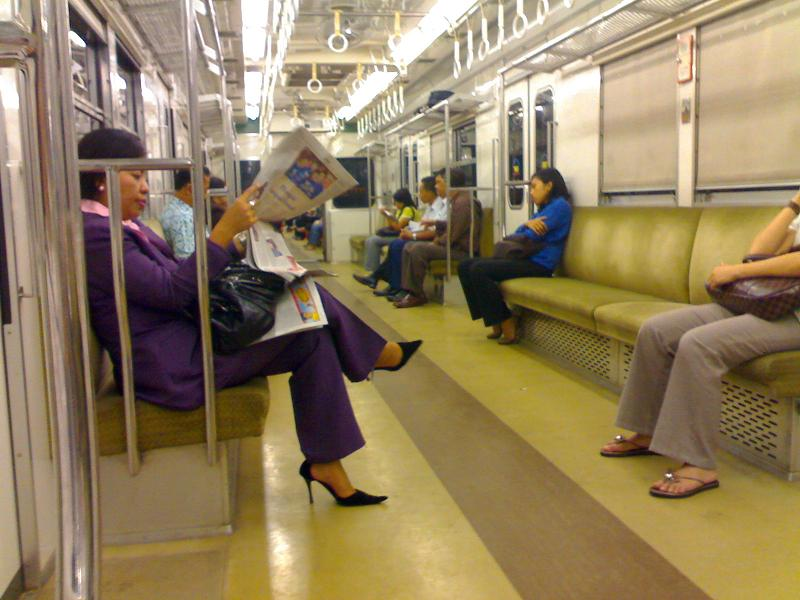 Jakarta rail way transportation system, ca. 2007 (from file metadata).